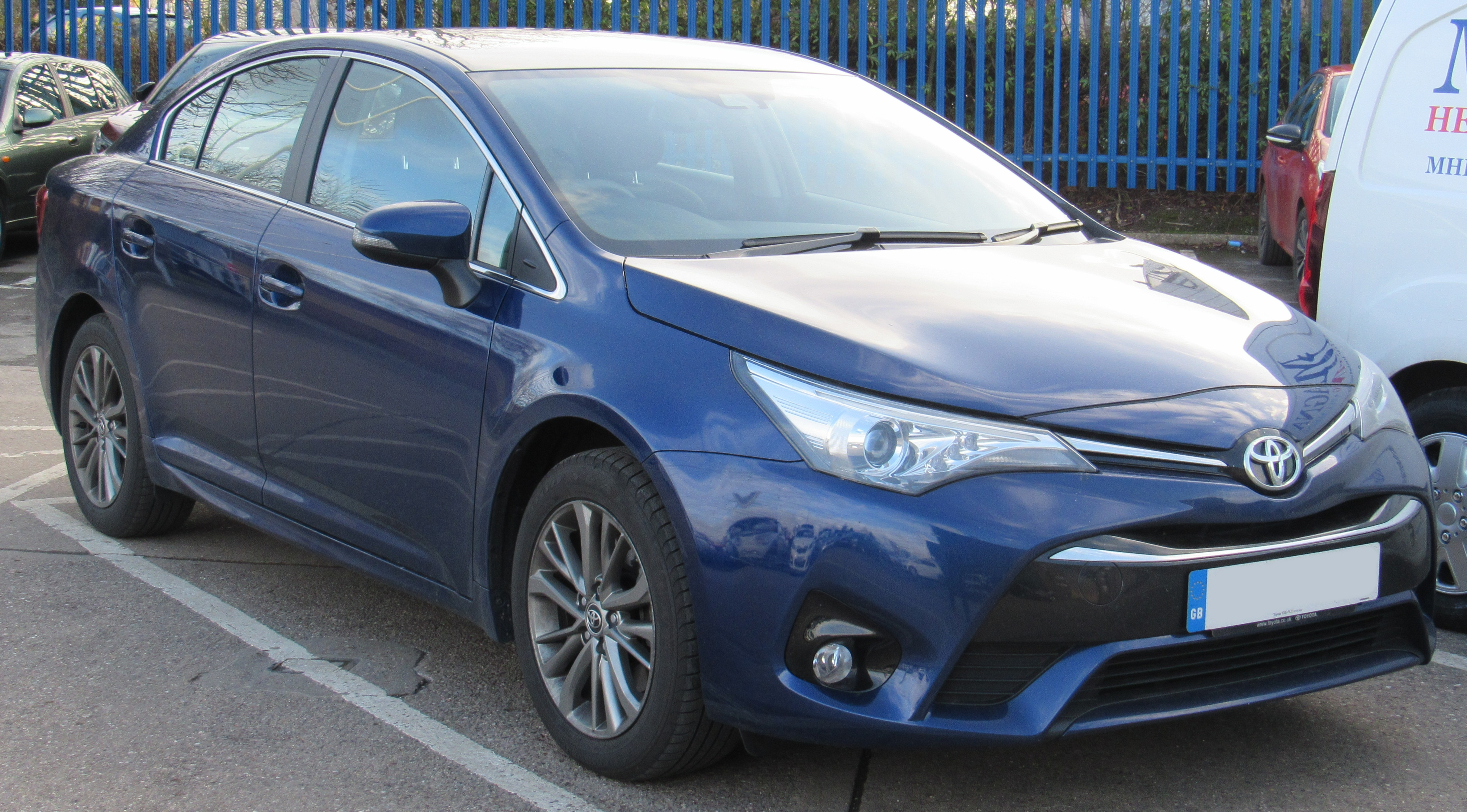 2017 Toyota Avensis Business Edition facelift 2.0 Front Taken in Leamington Spa